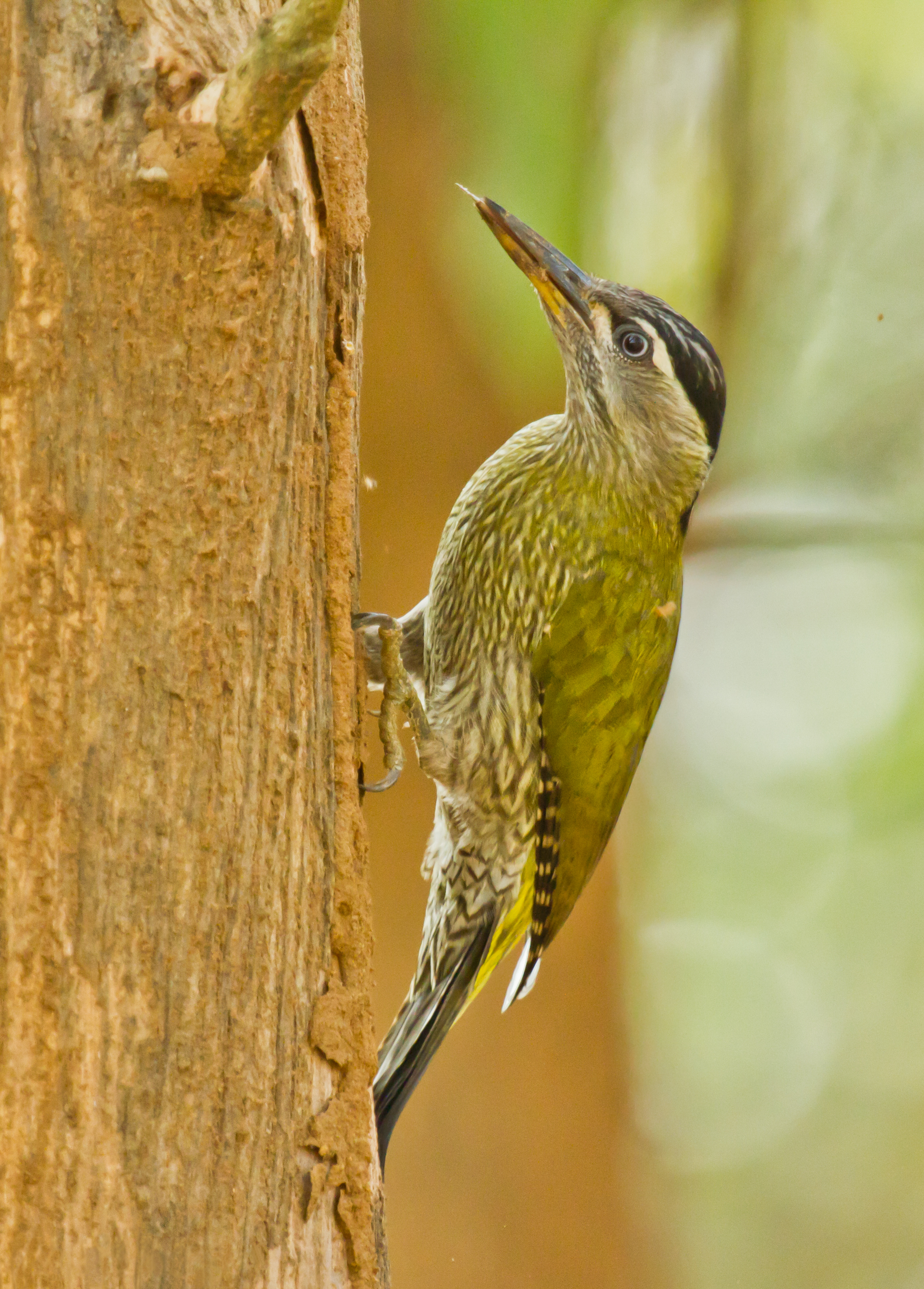 Location : Nilambur